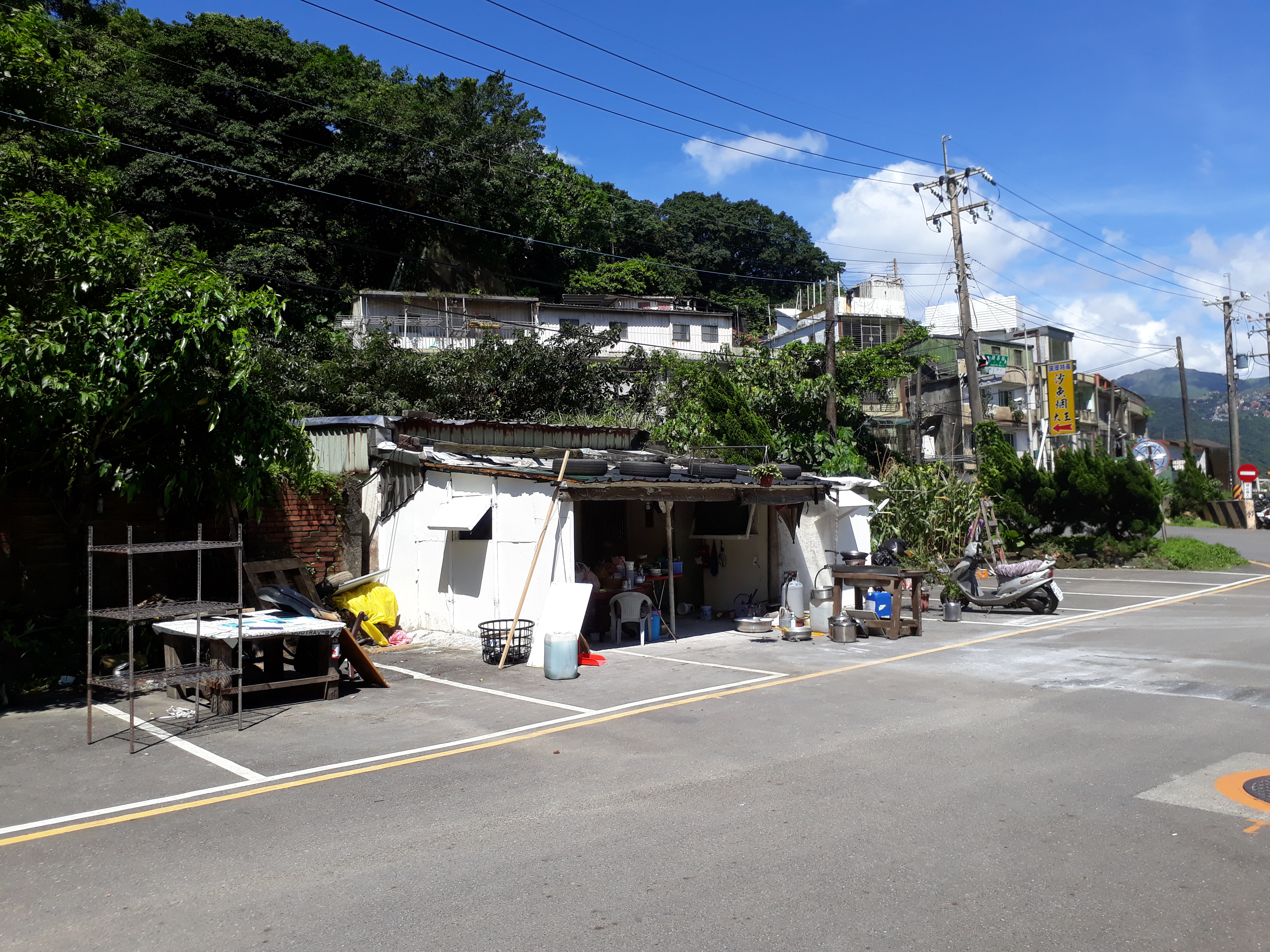 Remains of TRA Shen'ao Station, closed in 1989.